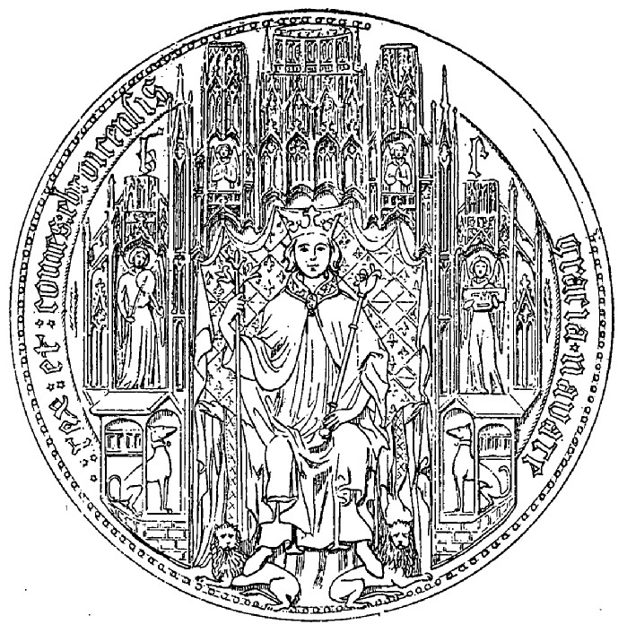 Charles III of Navarre